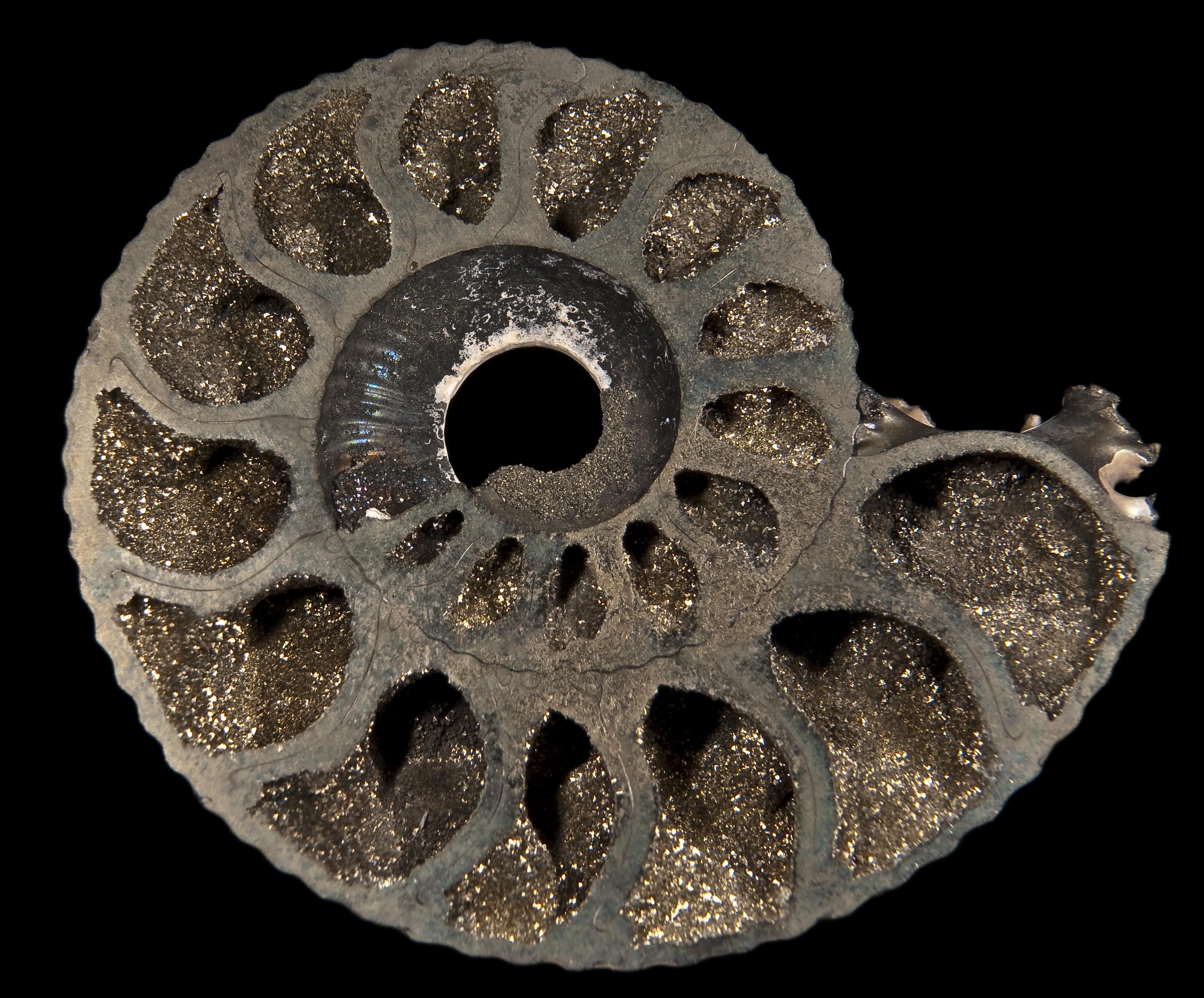 Ammonite with Pyrite pseudomorphs - Bully Calvados - France (4cm)